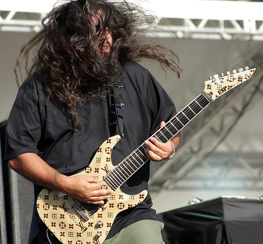 Guitarist Stephen Carpenter of Deftones performing at the Maquinária Festival in São Paulo, Brazil.